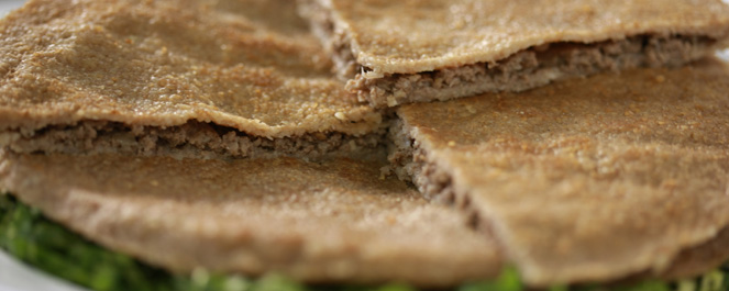 Kibbeh from Mosul, Natives call it The Big Kibbeh